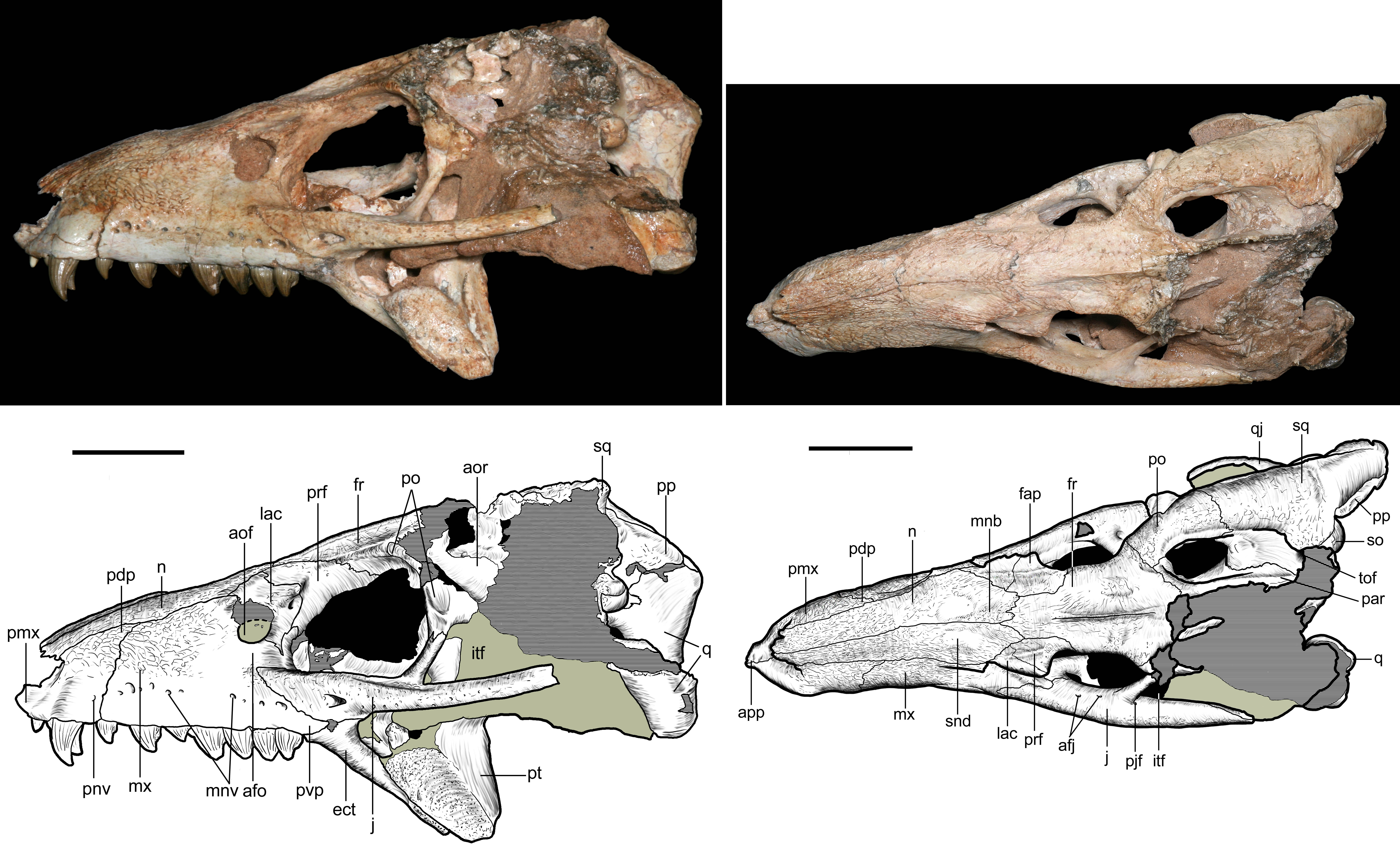 Left: Skull of Caipirasuchus stenognathus (MZSP-PV 139) in left lateral view. Abbreviations: afo, antorbital fossa; aof, antorbital fenestra; aor, anterior end of otic recess; ect, ectopterygoid; fr, frontal; itf, infratemporal fenestra; j, jugal; lac, lacrimal; mnv, maxillary neurovascular foramina; mx, maxilla; n, nasal; pdp, posterodorsal process of premaxilla; pmx, premaxilla; pnv, premaxillary neurovascular foramen; po, postorbital; pp, paroccipital process; prf, prefrontal; pt, pterygoid; pvp, posteroventral process of maxilla; q, quadrate; sq, squamosal. Scale bar equals 2.5 cm. Right: Skull of Caipirasuchus stenognathus (MZSP-PV 139) in dorsal view. Abbreviations: afj, anterior foramina on medial surface of jugal; app, anterodorsal process of premaxilla; fap, articular facet for anterior palpebral; fr, frontal; itf, infratemporal fenestra; j, jugal; lac, lacrimal; mnb, median nasal bulge; mx, maxilla; n, nasal; par, parietal; pdp, posterodorsal process of premaxilla; pjf, posterior jugal foramen; pmx, premaxilla; po, postorbital; pp, paroccipital process; prf, prefrontal; q, quadrate; qj, quadratojugal; snd, smooth nasal depression; so, supraoccipital; sq, squamosal; tof, temporo-orbital foramen. Scale bar equals 2.5 cm.